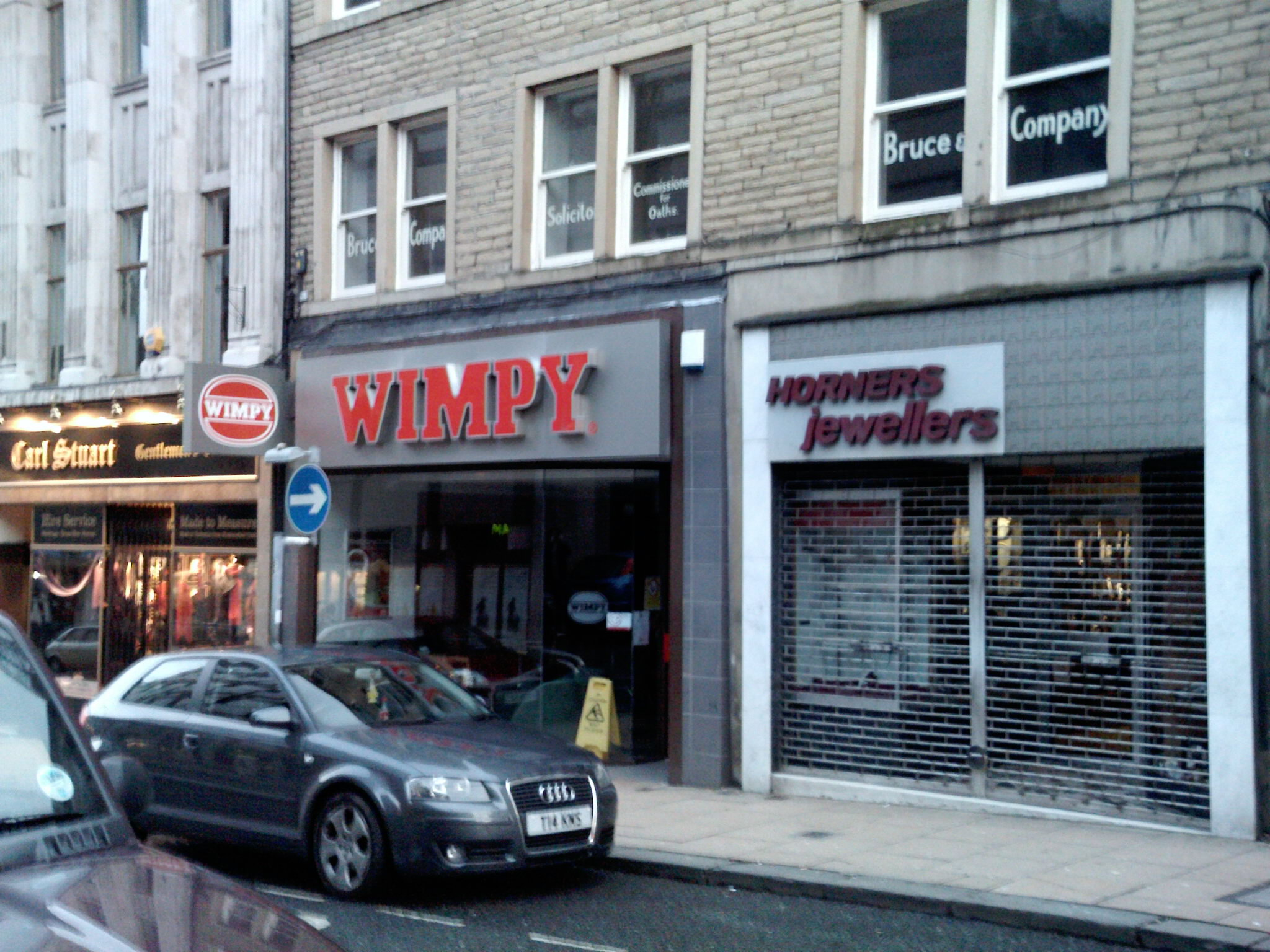 Wimpy in Huddersfield, West Yorkshire. Taken on a Sunday in November 2009.